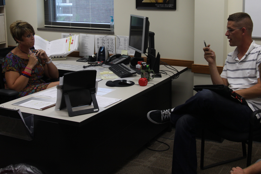 Marta Paukert listens to Staff Sgt. Christopher Pool as Pool conducts an "initial visit" on August 20, 2010 at the Recruiting Station Des Moines headquarters. The command group held its first ever mock visit to help the seasoned recruiters refresh their skills and to teach the new recruiters how to conduct high school visits. Paukert is a guidance counselor at Eagle Grove High School in Eagle Grove, Iowa and Pool is a canvassing recruiter at Permanent Contact Station Galesburg in Galesburg Illinois.